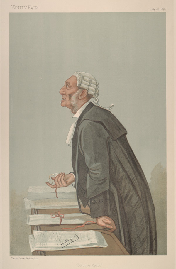 Men of the Day No.654: Caricature of Mr Frederic Andrew Inderwick QC. Caption reads: "Divorce Court"